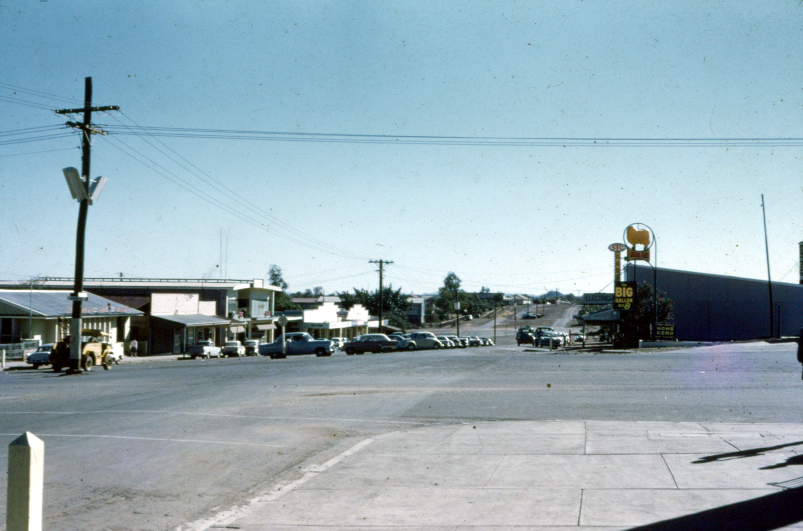 A view of a Mt Isa street looking towards the Golden Fleece service station.